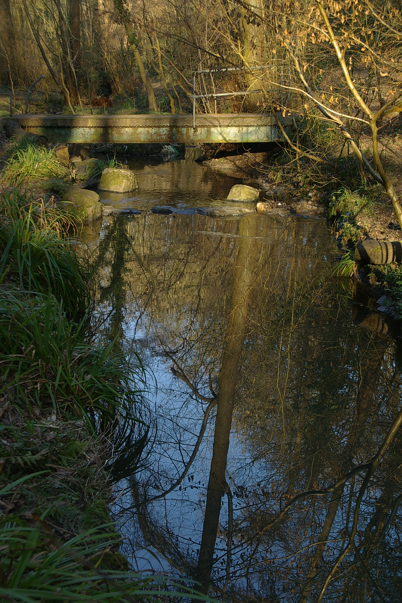 St Anne's Park, St Anne's, Bristol.